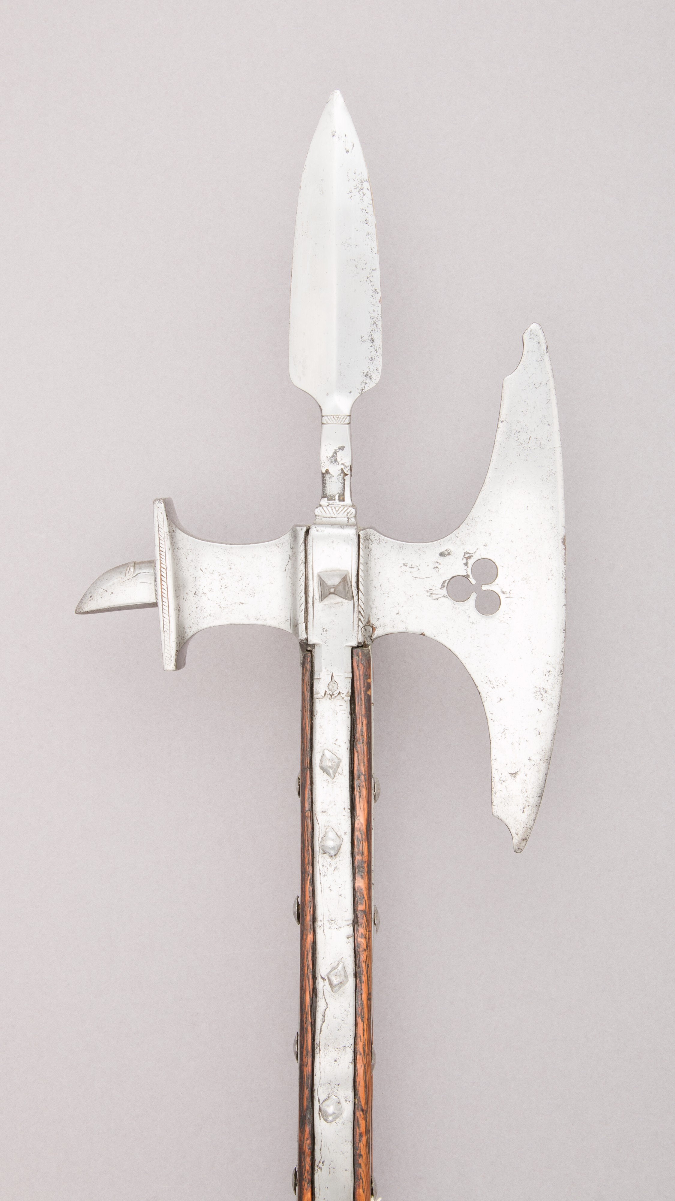 French, Burgundy; Pollaxe; Shafted Weapons